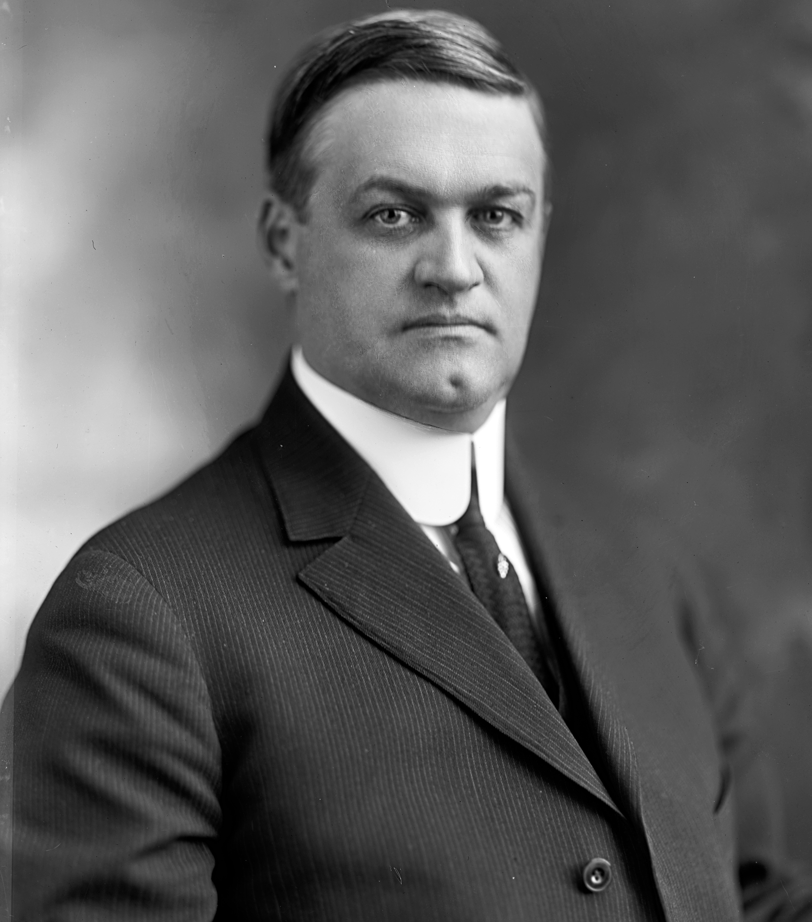 Michael Francis Phelan, US Representative from Massachusetts